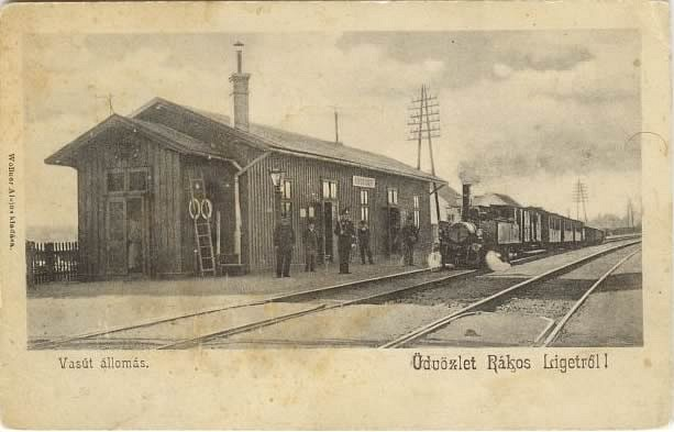 Rákosliget train station at the beginning of the 20th century. The incoming train is pulled by a MÁV 377 steam locomotive